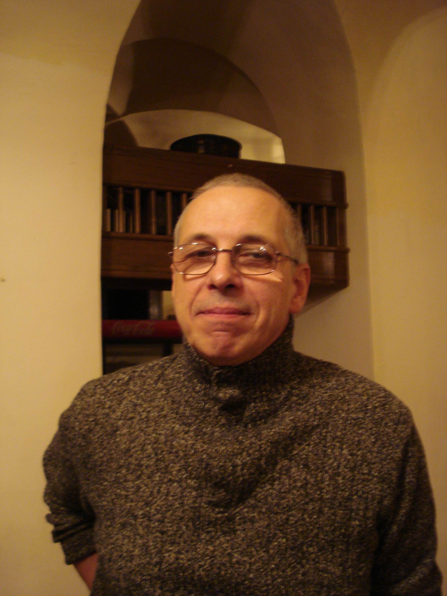 Tomas Sodeika (born 1949), the Lithuanian philosopher, Professor